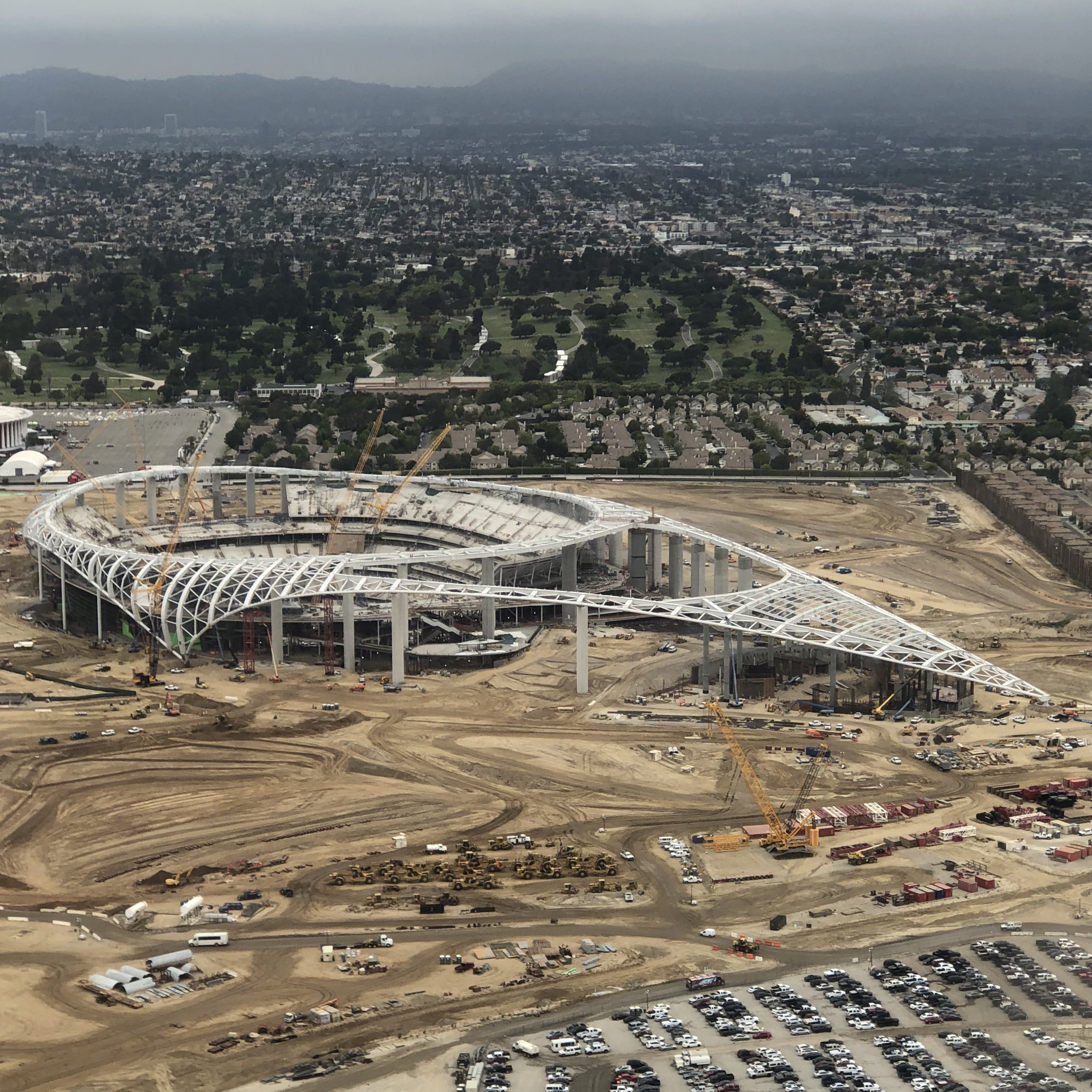 Los Angeles Stadium under construction, May 2019